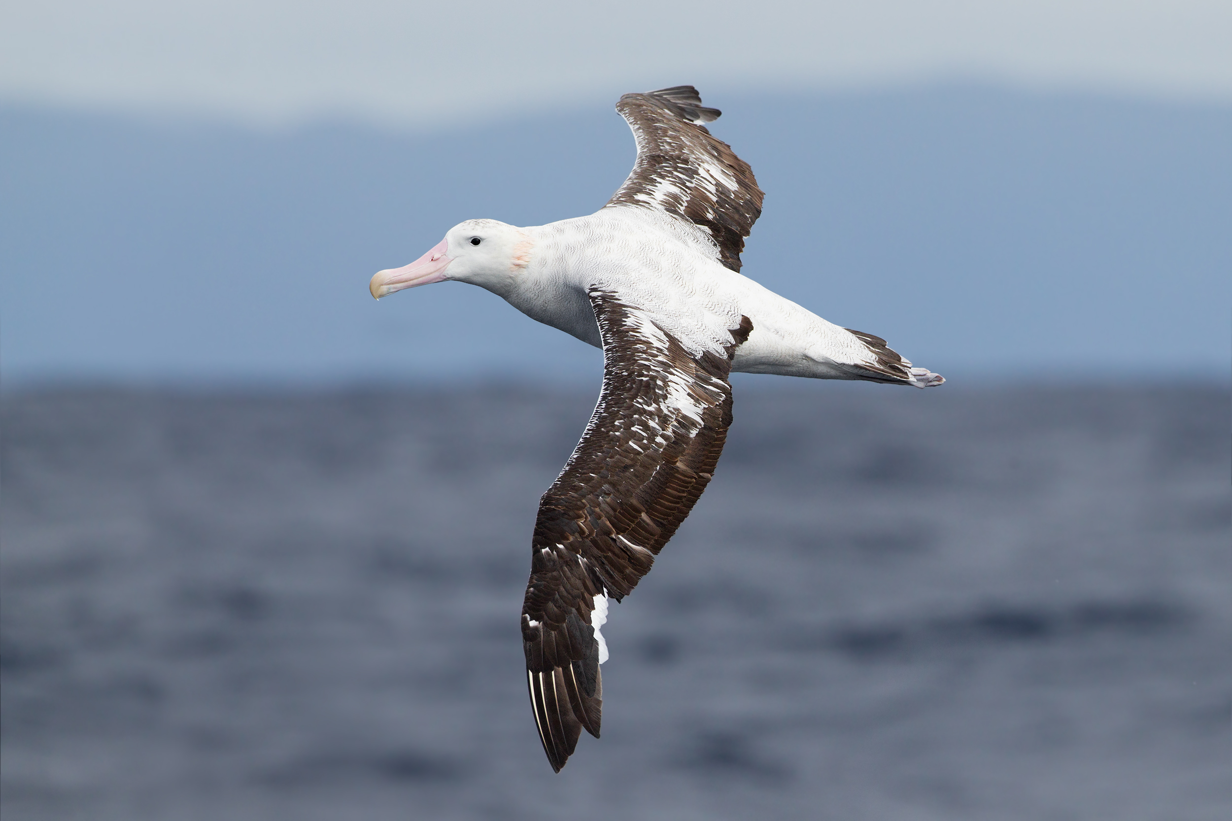 Wandering Albatross (Diomedea exulans) in flight, East of the Tasman Peninsula, Tasmania, Australia